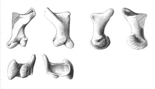 Preserved material of Rapator ornitholestoides, BMNH R3718, either the first metacarpal or the first phalanx of the first digit. On the top row, left to right: dorsal, ventral, medial, and lateral; on the bottom row: distal and proximal views. The bone measures 7cm along it's length, though von Huene's measurment is not based on a particular axis that can be verified from figures. It is proximally 4.5cm wide, 4cm wide distally, and in the middle it is 2.5cm.